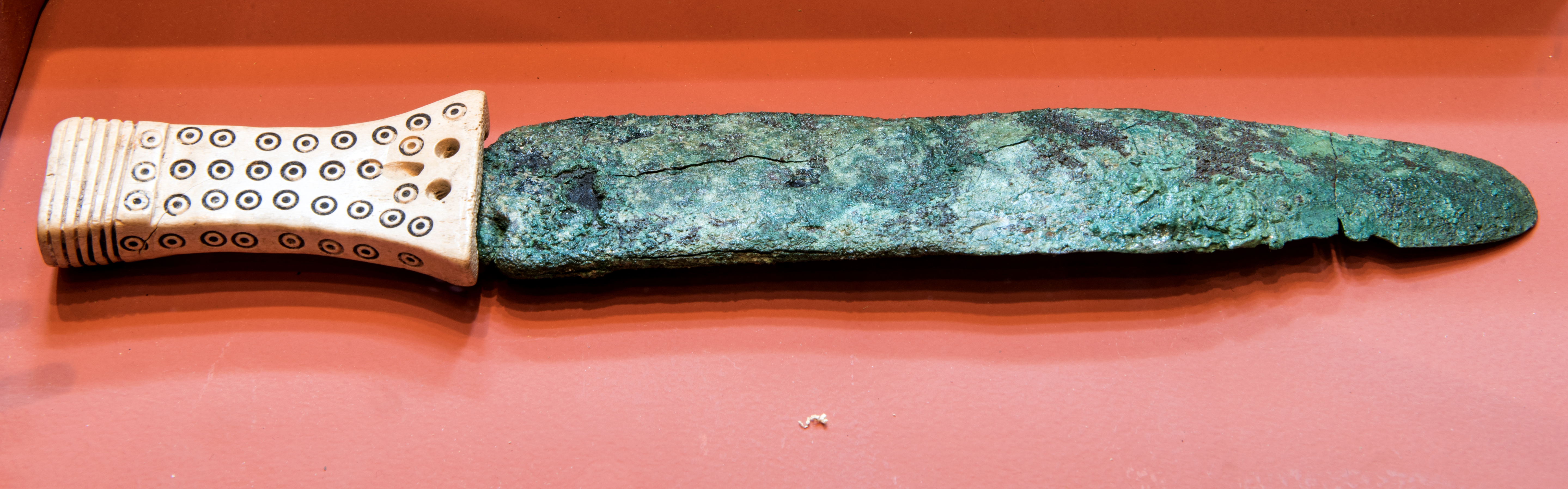 Dagger with a carved bone handle. Bronze Age Period. On permanent display at the National Museum of Archaeology in Valletta, Malta.